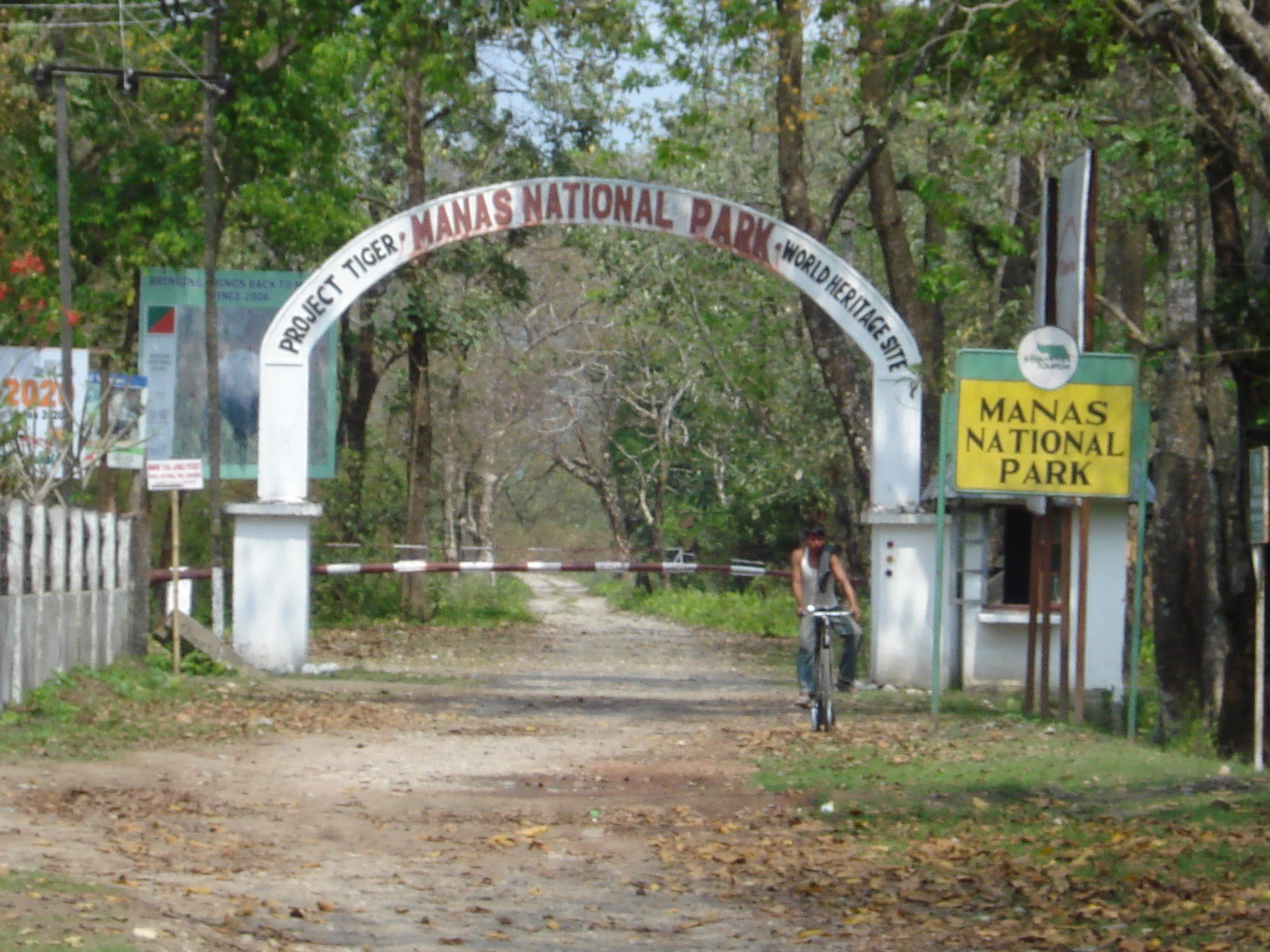 Manas National Park, Assam- rich flora and fauna...